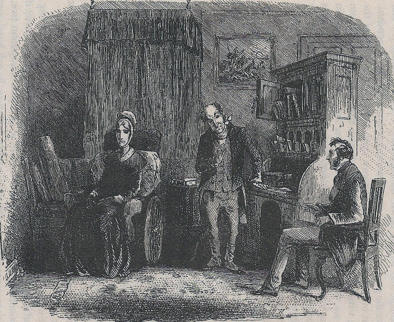 Little Dorrit,Mr Flintwinch mediates as a friend of the family, by Phiz